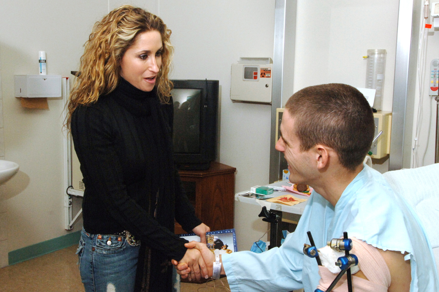 Trick Pony's lead singer, Heidi Newfield, visits with a patient at Landstuhl Regional Medical Center, Germany, on Thanksgiving Day. Touring with the Band of the Air Force Reserve and the U.S. Air Forces in Europe Band, Ms. Newfield visited the hospital to serve dinner, sign autographs and thank the troops.